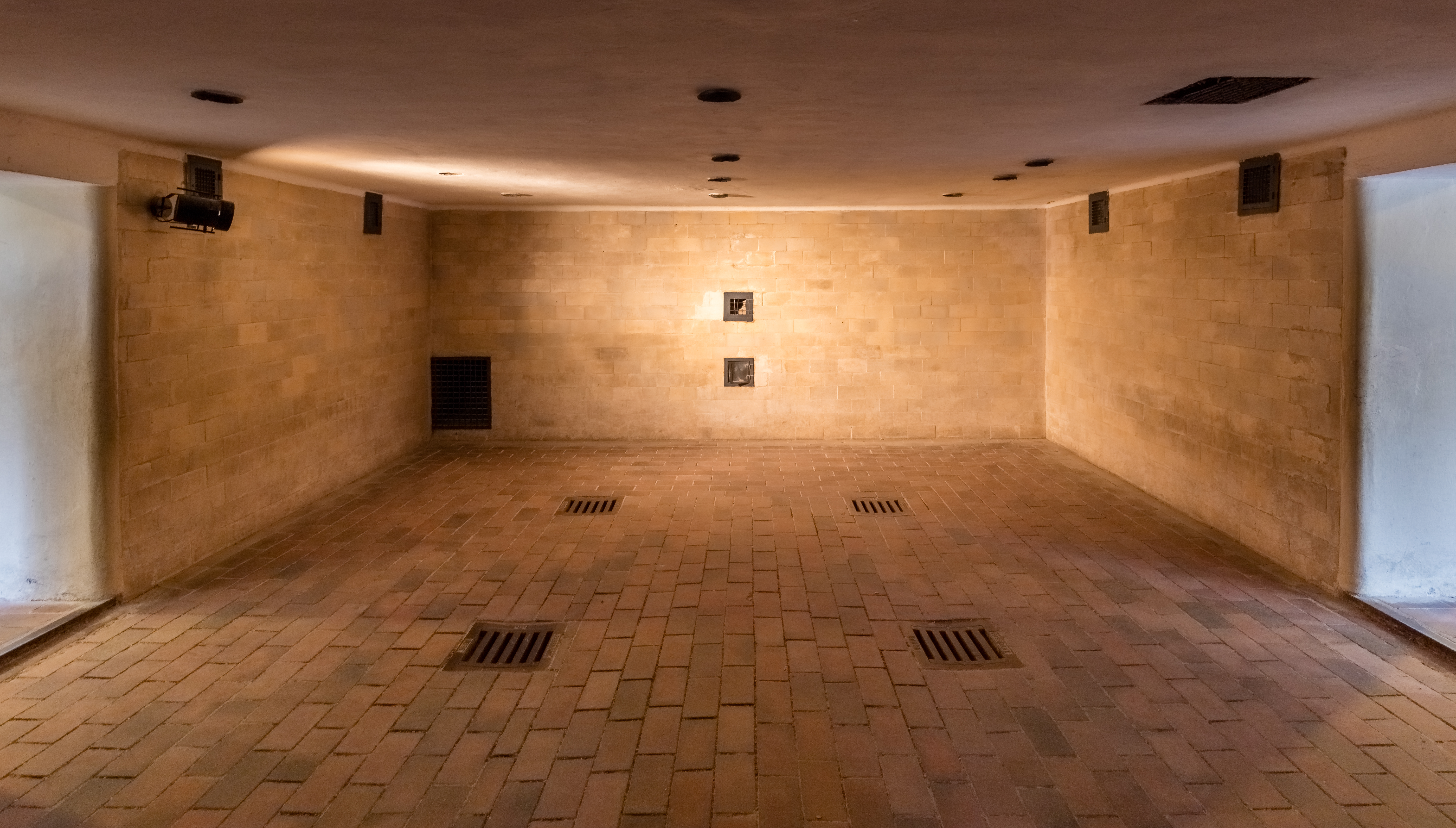 Gas chamber of the Dachau concentration camp, Dachau, near Munich, Germany. It was the first of the Nazi concentration camps opened in Germany, intended to hold political prisoners. Its purpose was enlarged to include forced labor, and eventually, the imprisonment of Jews, German and Austrian criminals, and later foreign nationals from countries that Germany occupied or invaded. As U.S. Army troops neared the Dachau sub-camp at Landsberg on 27 April 1945, the SS officer in charge ordered that 4,000 prisoners be murdered. Windows and doors of their huts were nailed shut. The buildings were then doused with gasoline and set afire. There were 32,000 documented deaths at the camp, and thousands that are undocumented.